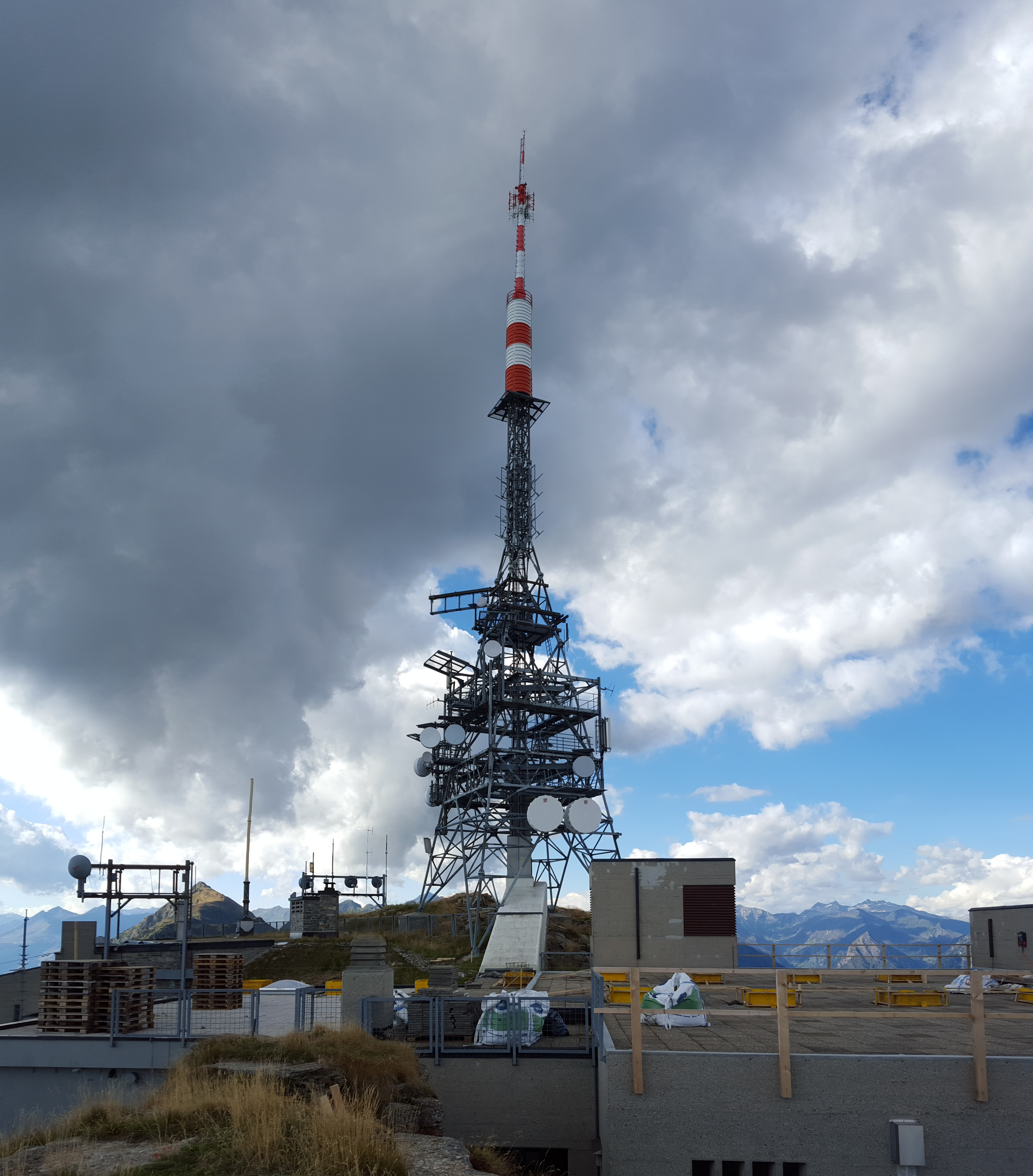 Tower on Matro (Serravalle/Sobrio, Ticino, Switzerland)